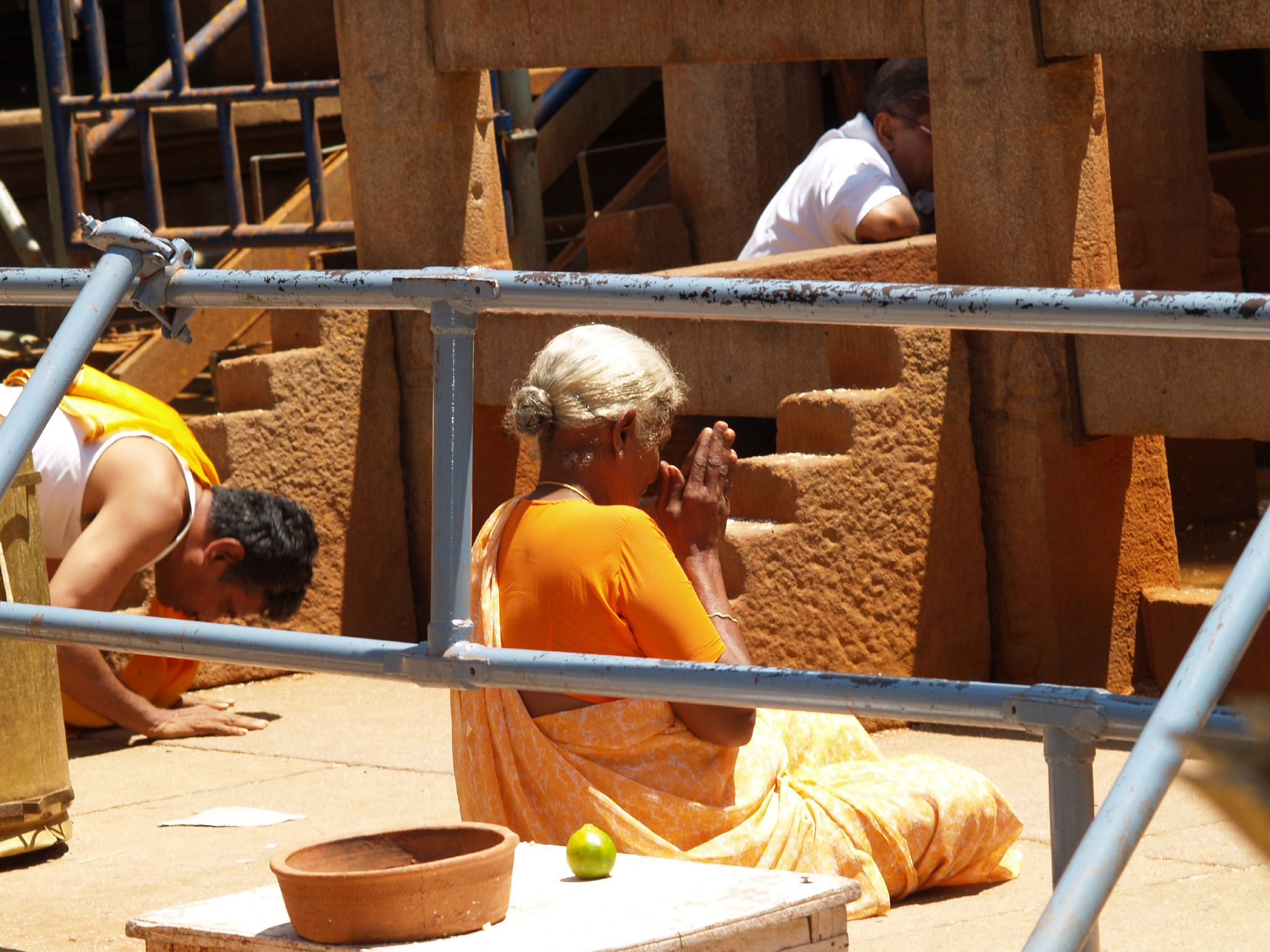 Woman praying at the feet of Gomateshvara, at the Jain temple of Shravanabelagola, Karnataka.